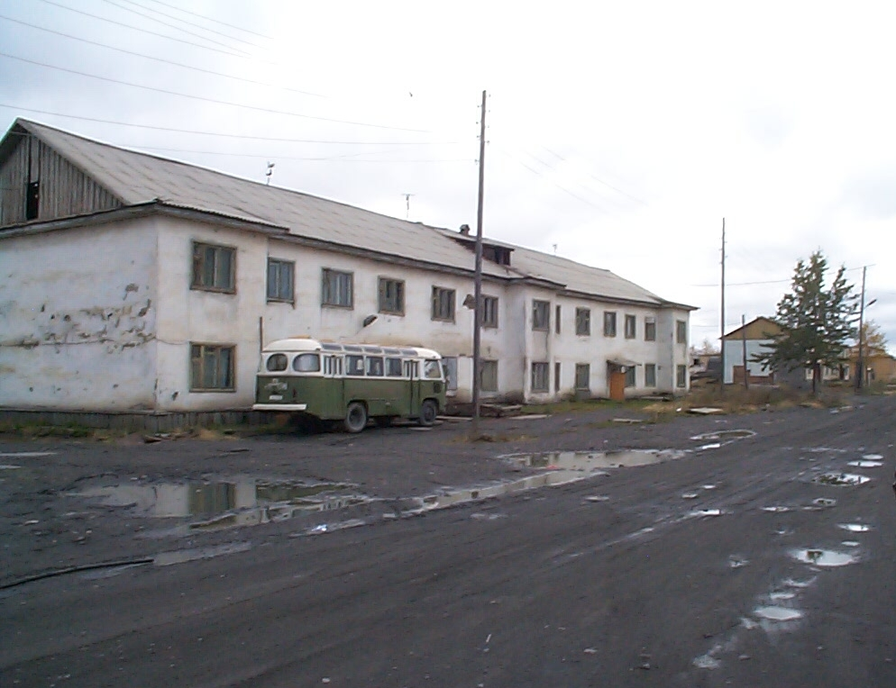 Ust-Omchug accommodation block, Magadan Oblast, Siberia. Photo taken by self (Oxonhutch (talk)) 5 September 2004